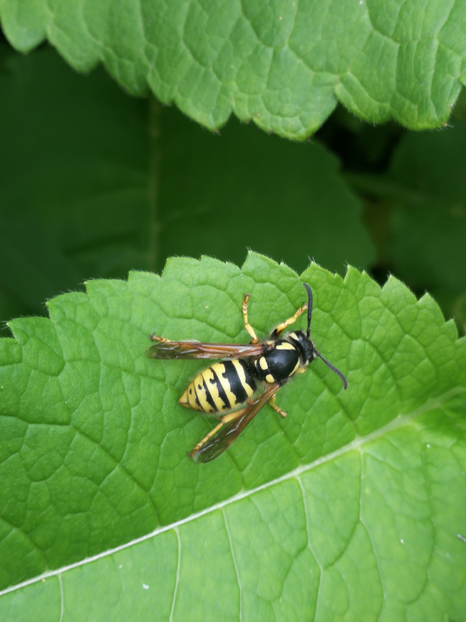 Queen of the species Dolichovespula omissa. Originally uploaded at